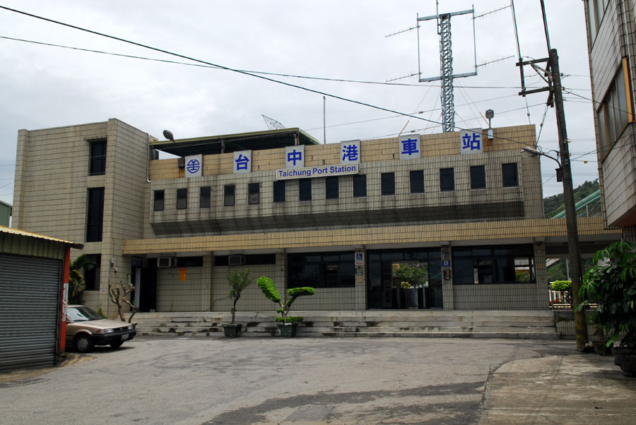 TaiChung Port Station is a local train station of Taiwan's Western main rail line. It's located within the boundary of CingShuei Town, TaiChung County. Among the several TRA port stations, TaiChung Port Station is the only one which still provides passenger service.